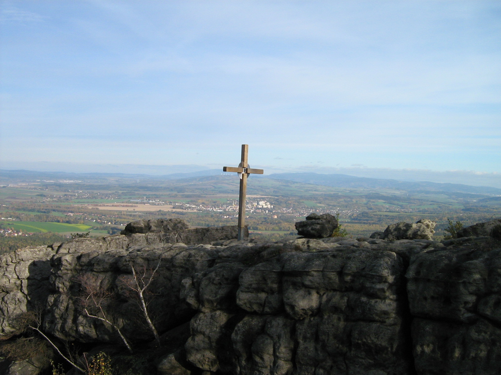 The mountain Töpfer with cross of europe in Lusatian mountains